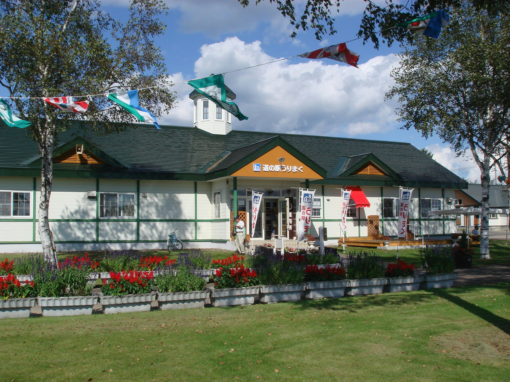 Michinoeki(Roadside Station) Urimaku (Shikaoi, Hokkaidō)